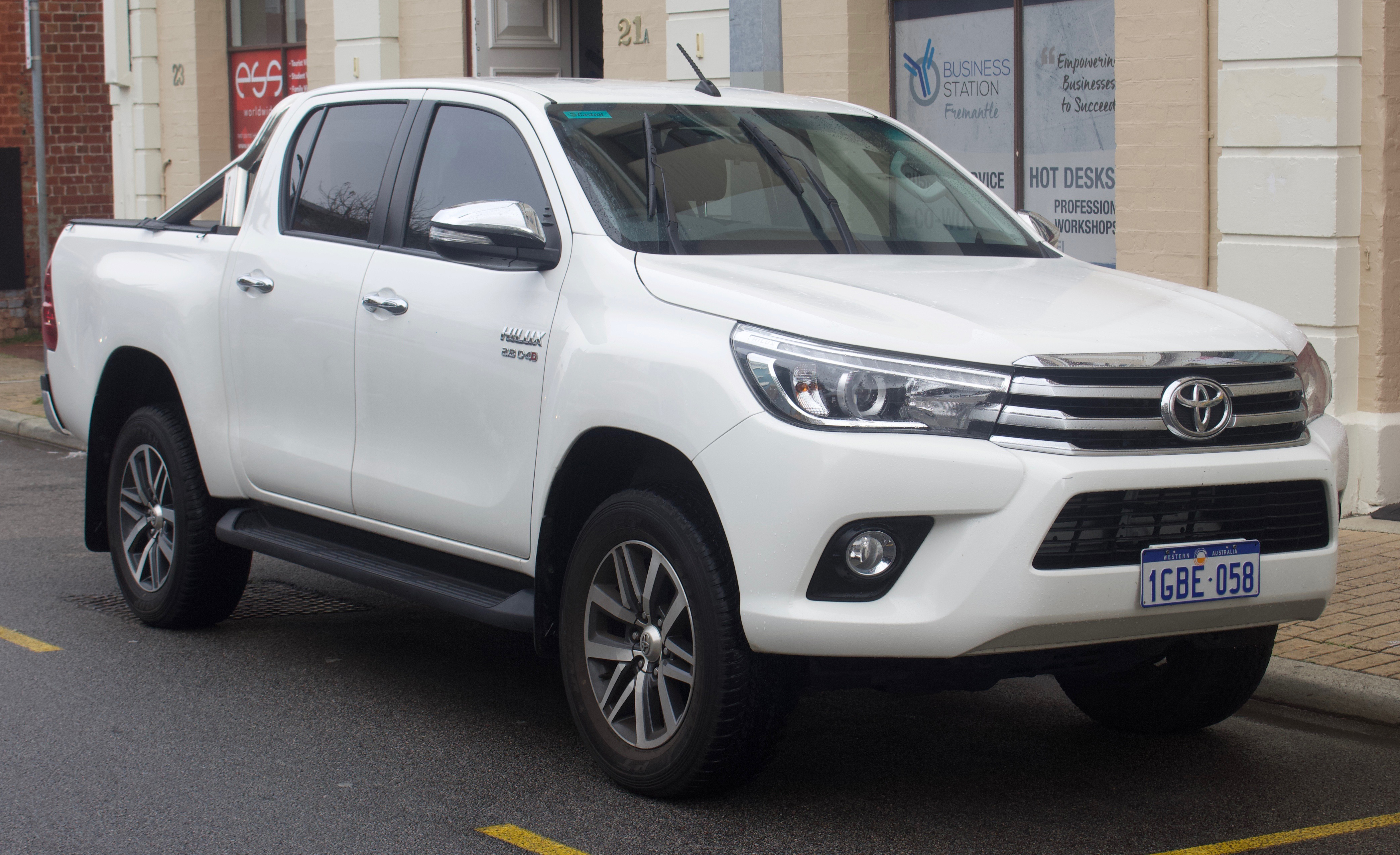 2016 Toyota HiLux (GUN136R) SR5 4-door utility. Photographed in Fremantle, Western Australia, Australia.